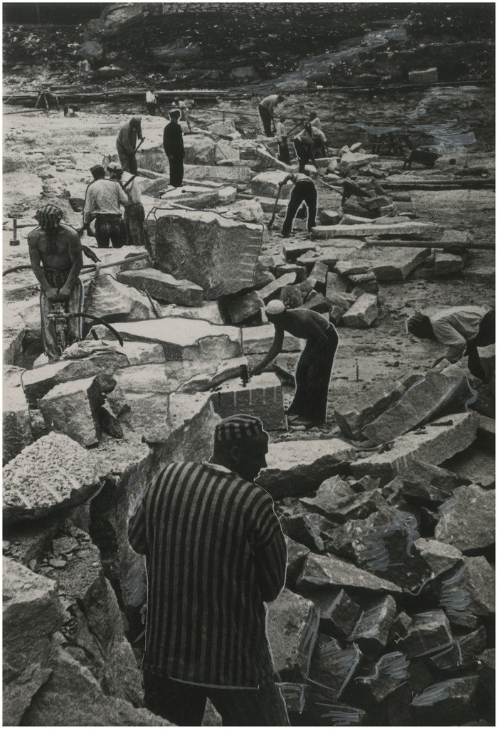 Convicts breaking the Vasalemma marble in Vasalemma, Estonia, 1938.